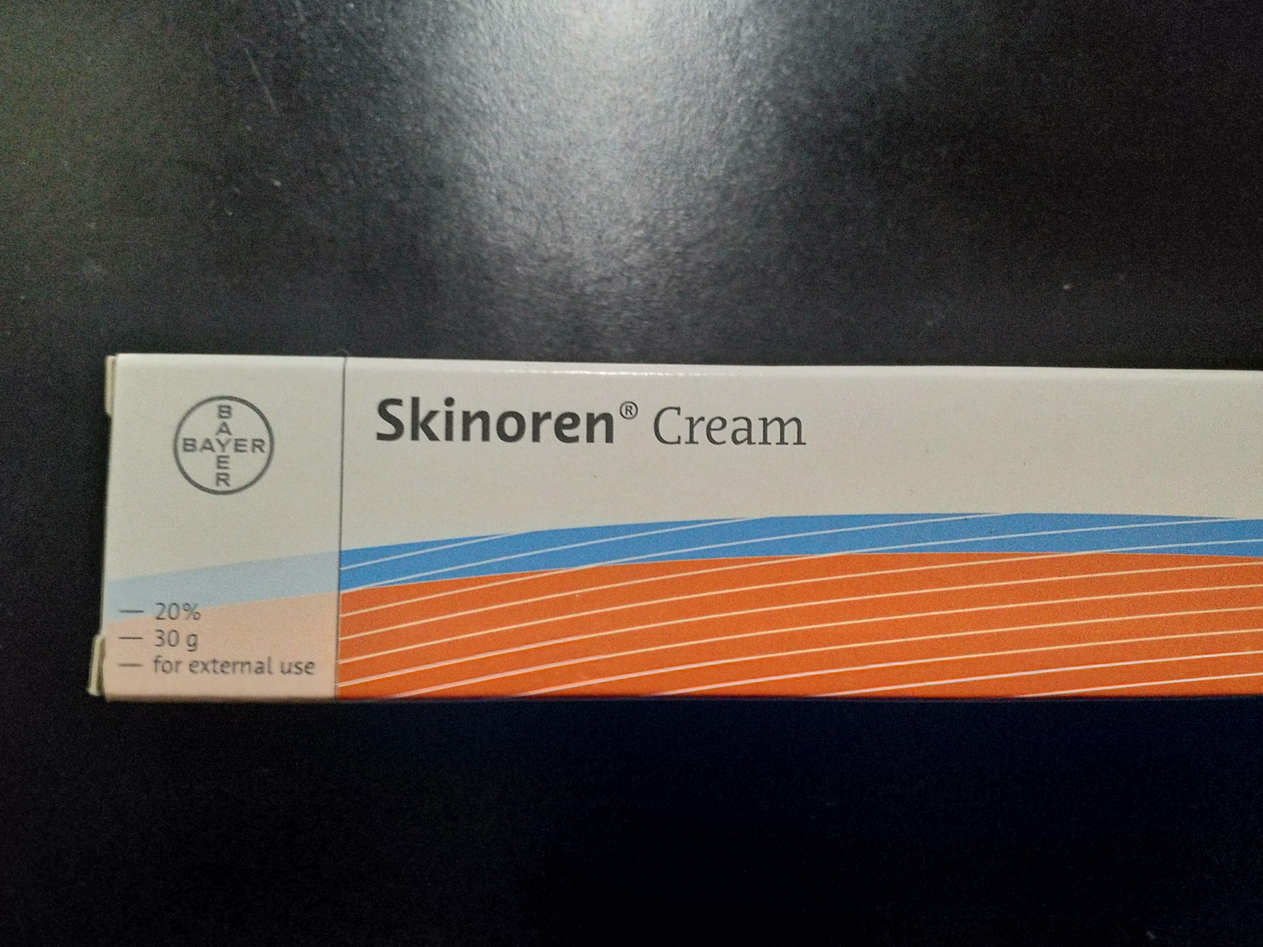 Azelaic cream 20% topical cream